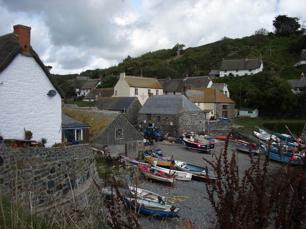 Another view of Cadgwith Cove looking from The Todden